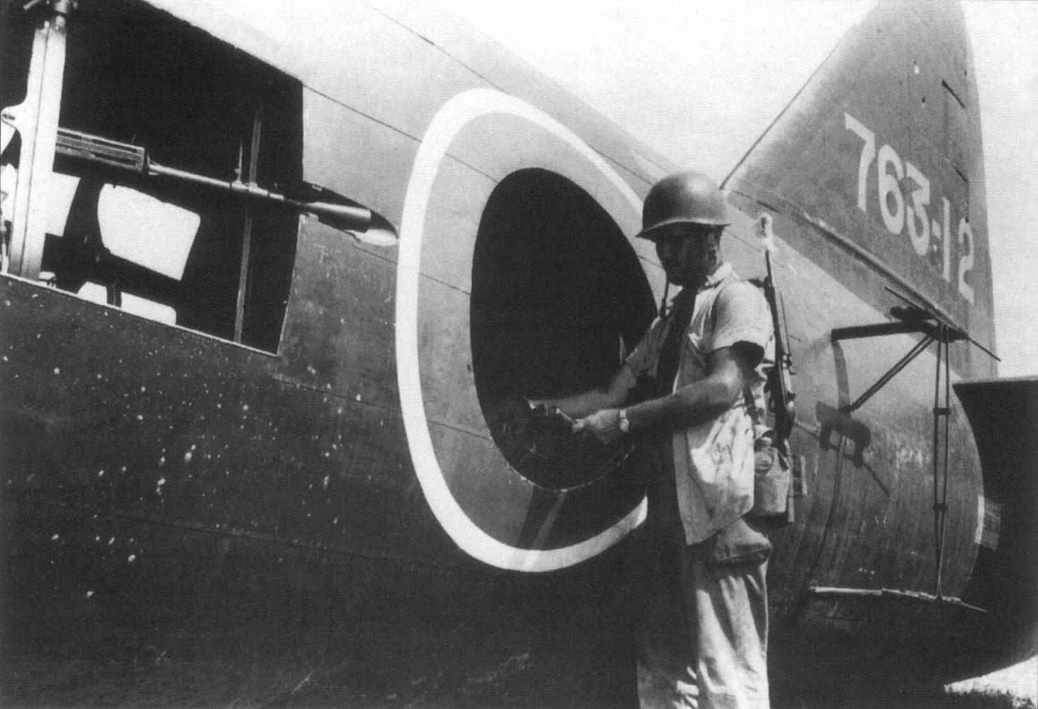 U.S. soldier takes a 20mm drum magazineout of G4M2A fuselage.